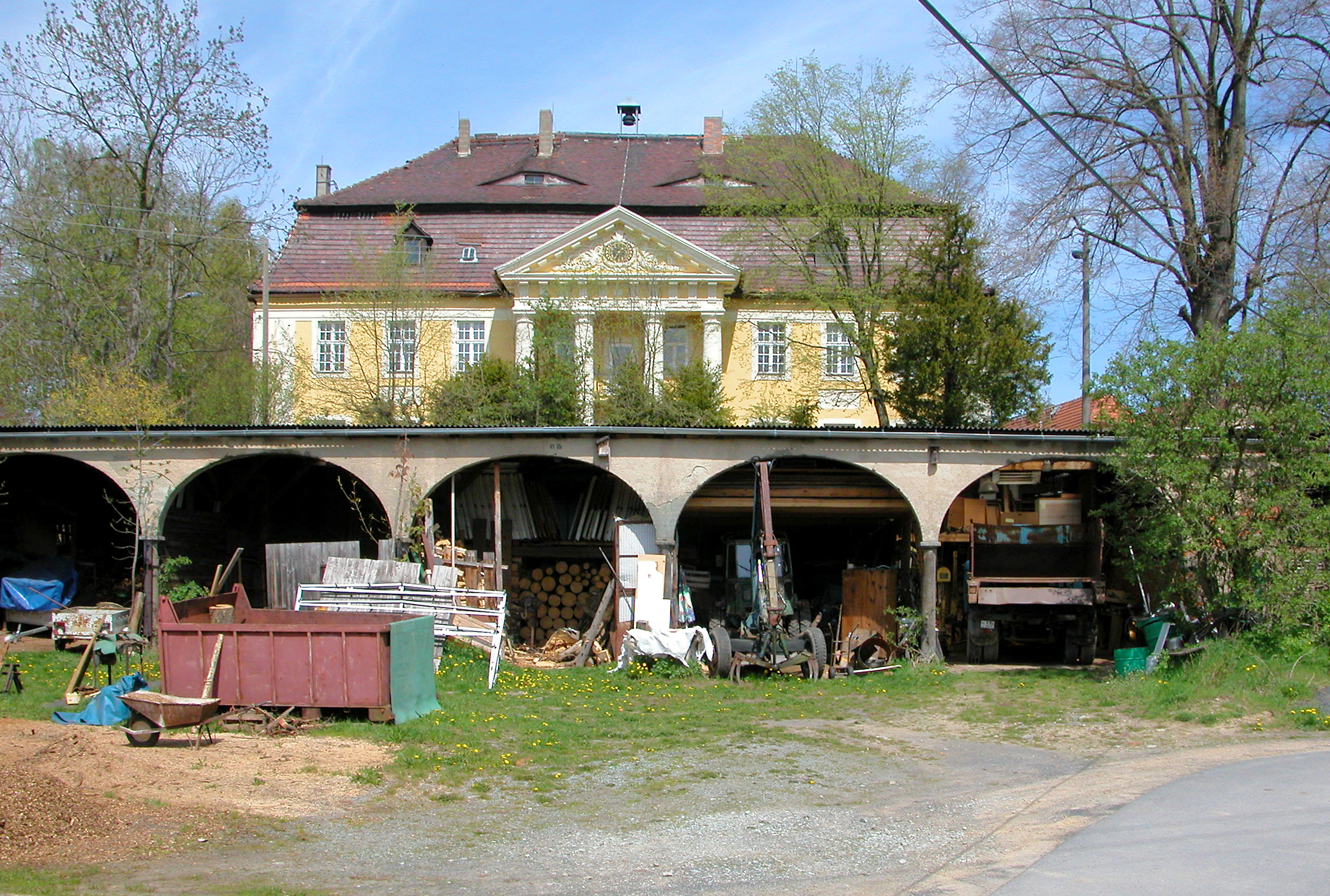 28.04.2008 02747 Niederstrahwalde (Strahwalde) Schloßweg (GMP: 51.029817,14.733179): Schloß Niederstrahwalde, erbaut im 18. Jh. unter August Leopold von Kyaw. In der DDR Kindergarten. 2002 privatisiert. [DSCN32538.JPG]20080428505DR.JPG(c)Blobelt